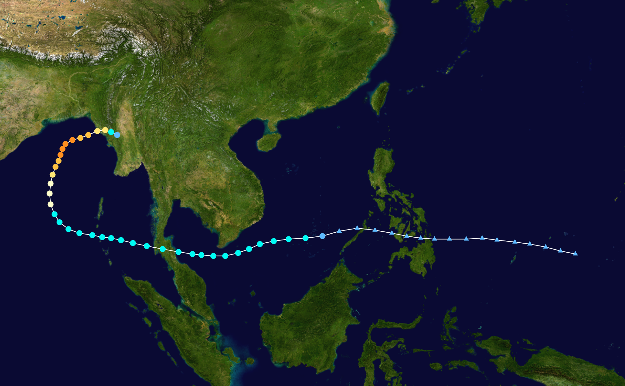 Typhoon Forrest 1992 track. Uses the color scheme from the Saffir-Simpson Hurricane Scale.